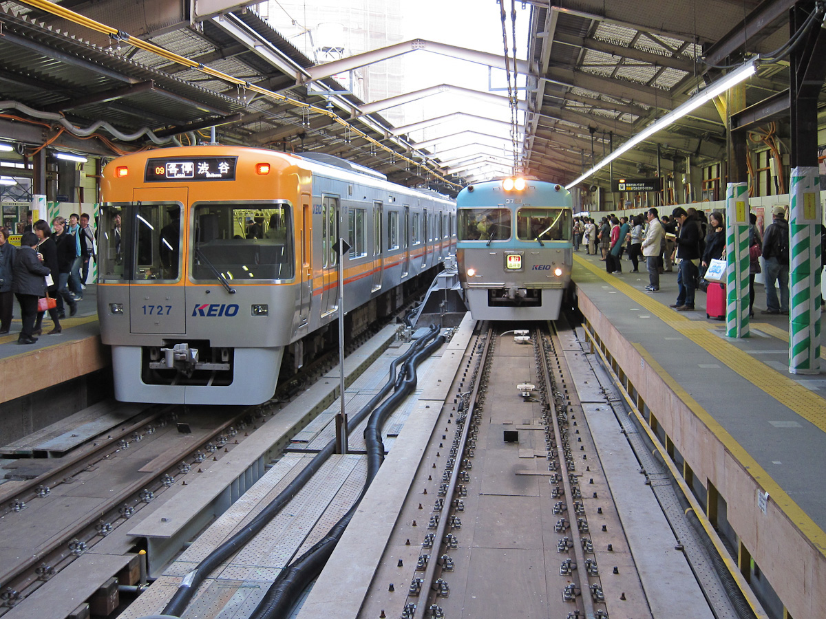 Kichijoji Station on the Keio Inokashira Line